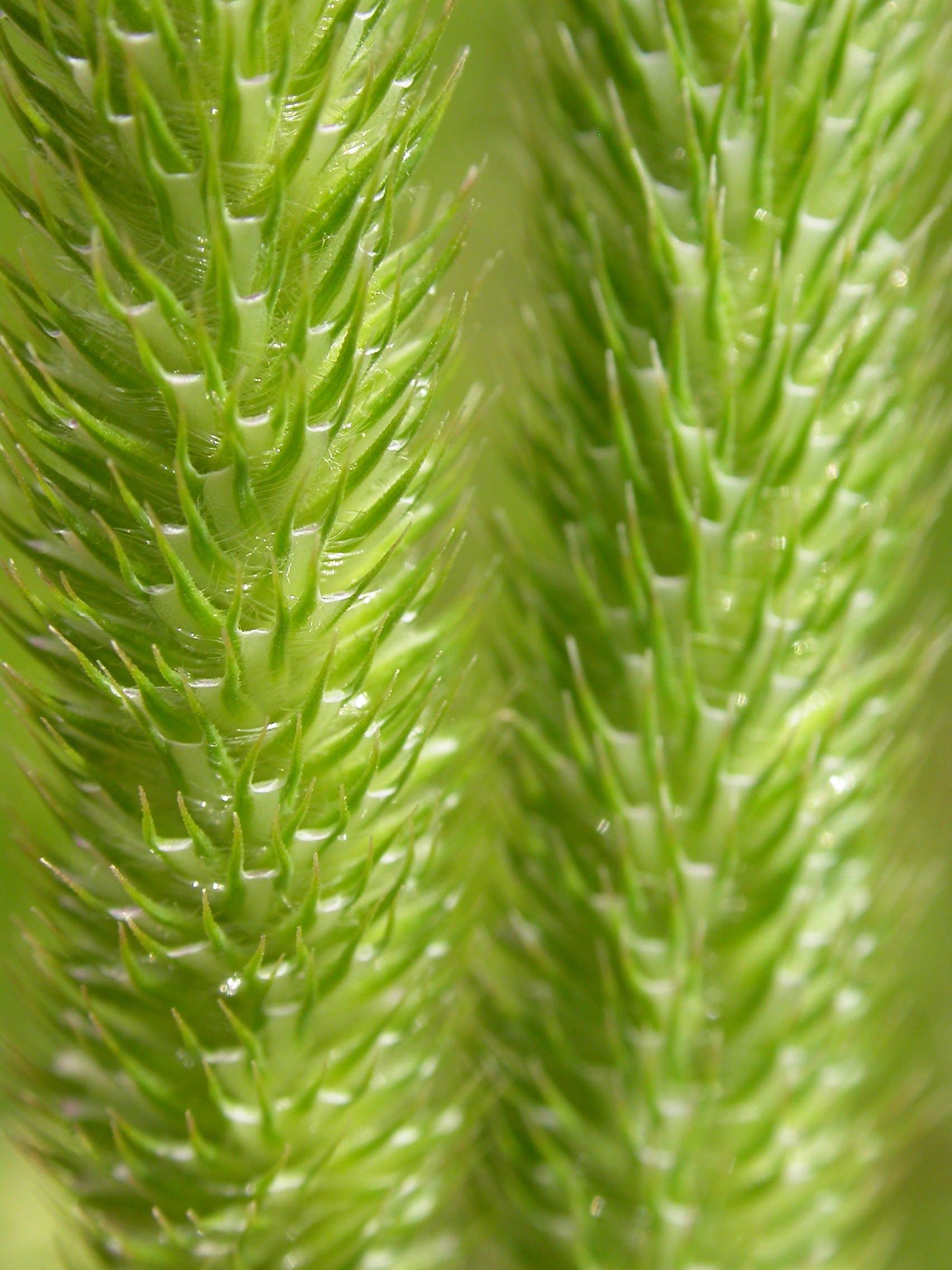 The short stout awns arising from each of the glume tips and the ciliate midrib of the glume are diagnostic of the genus Phleum.